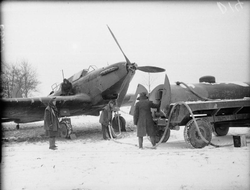 Royal Air Force- France 1939-1940. A Fairey Battle is refuelled from a petrol tanker on a snow-covered airfield in France.